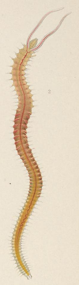 Pygospio elegans (Claparède, 1863), A monograph of the British marine annelids, 1915, XCIII